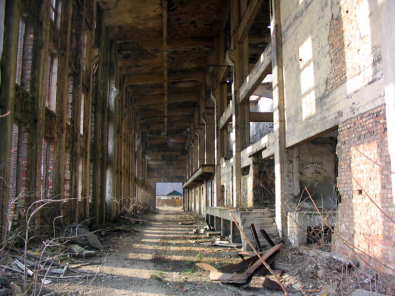 view into the oxygenium work II in Peenemünde. Fotograf: Darkone Aufnahmedatum: 28. Februar 2004